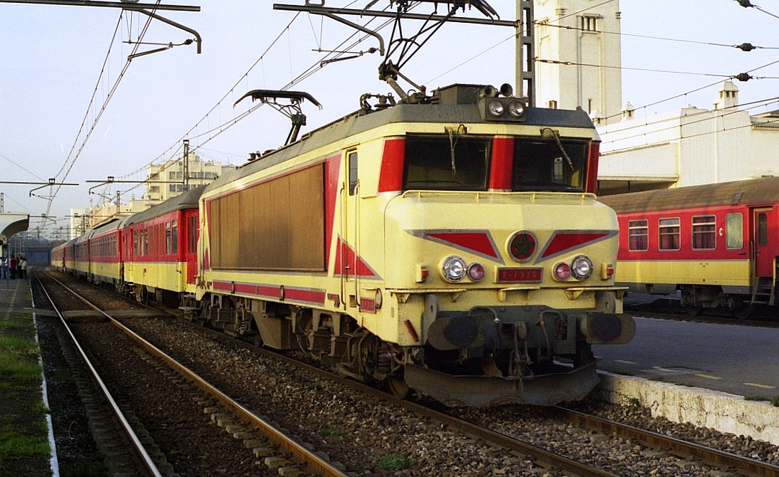 Again a close connection with France. Class E 1300 locos are similar to SNCF class BB7200. Regular on passenger traffic along the mainline from Féz to Marrakesh and branches leading off. Seen on 31 October 2002 E-1316 is at Casablanca Voyageurs.